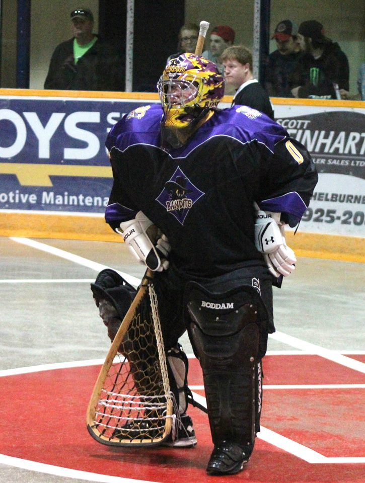 These images of Ontario Junior C Lacrosse Action action during the 2015 season are taken by Devan Mighton.